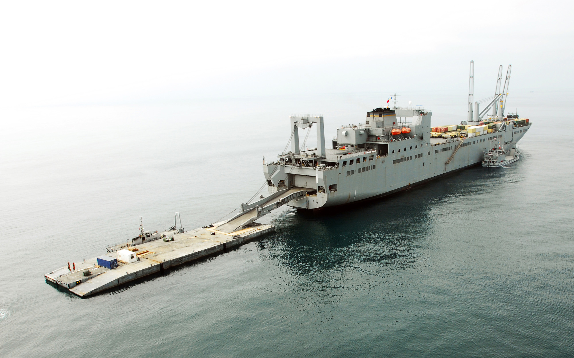 The USNS Pililaau sits anchored off the Pacific coast at Camp Pendleton, Calif., July 22, during Joint Logistics Over The Shore 2008. JLOTS is an annual exercise that increases the Army's and Navy's ability to build improvised ports for transporting equipment from ship to shore when a harbor or pier has been damaged or is nonexistent. Nearly 1,500 pieces of rolling equipment and shipping containers will be moved from ships with a series of lighterage systems (floating roadways) and smaller boats to improvised piers on the shore. (U.S. Army photo by Sgt. Stephen Proctor, JLOTS Public Affairs)